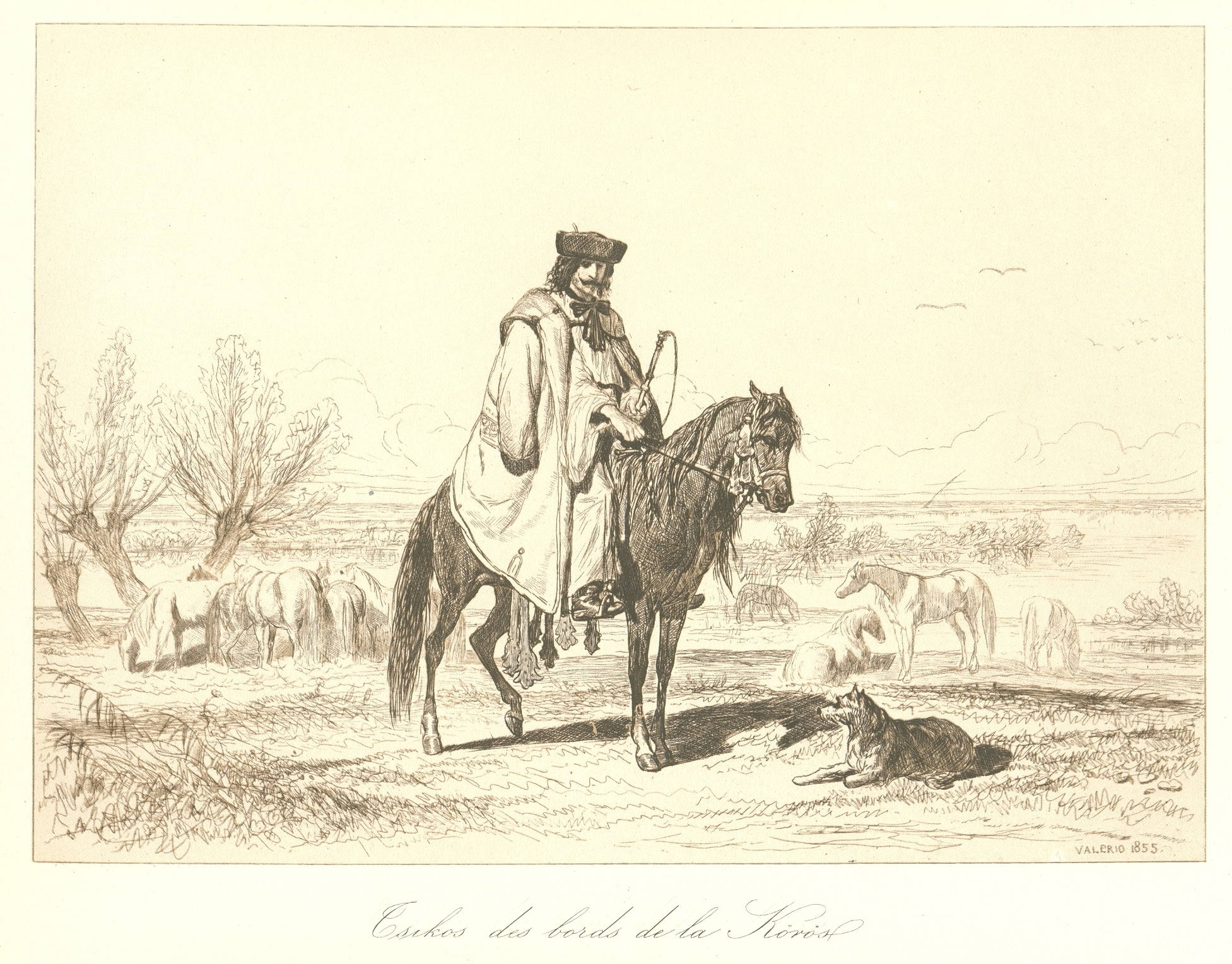 Horsemen in the Great Hungarian Plain, Location "Kőrös"; 19th century, Hungary